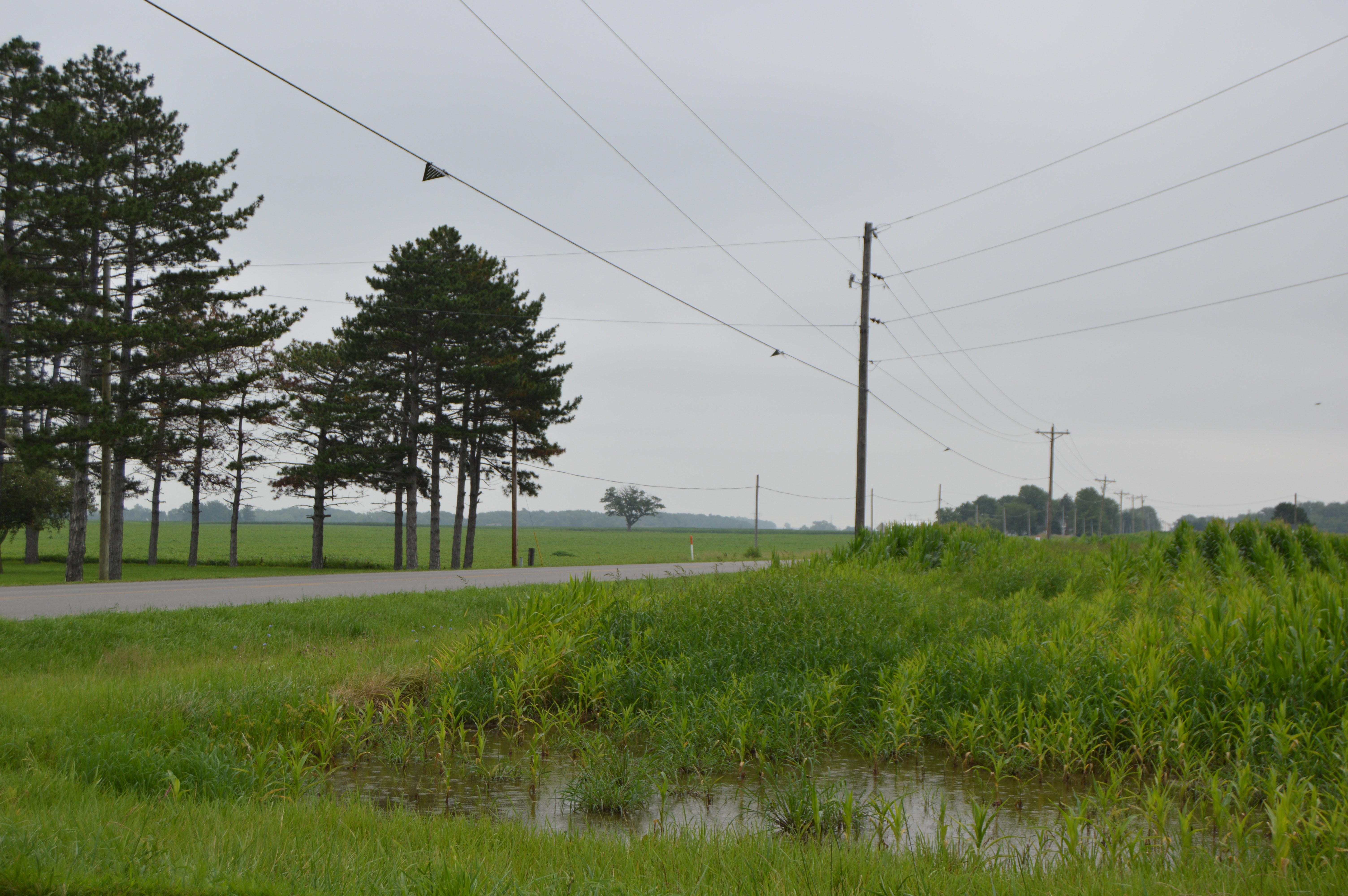 An old alignment of the Lincoln Highway travels past a Slabtown Road cornfield east of Cairo in Monroe Township, Allen County, Ohio, United States. In the foreground, a pond occupies a corner of the field; the region had recently experienced flooding due to significant rainfall.